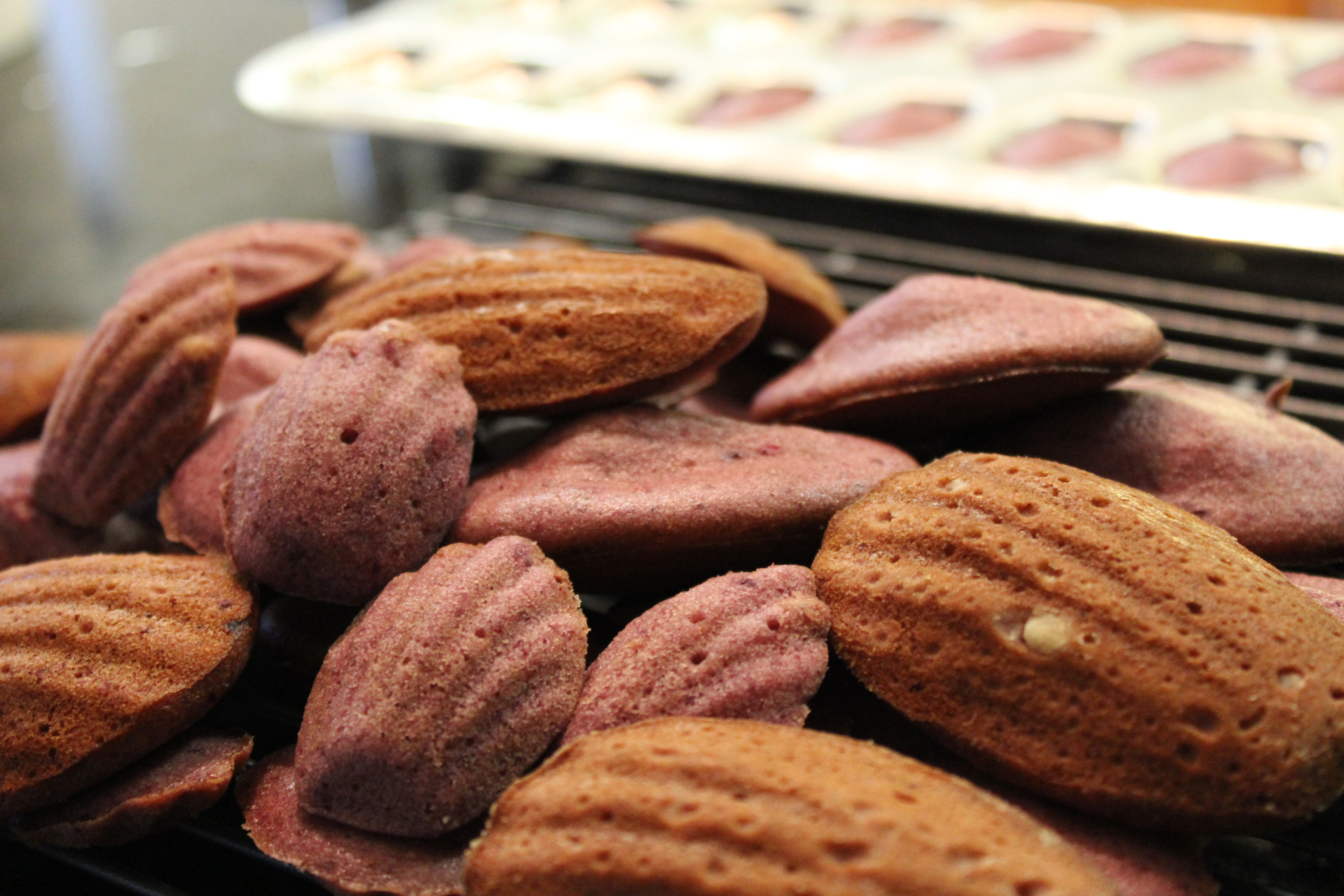 The purple tin-side shore.